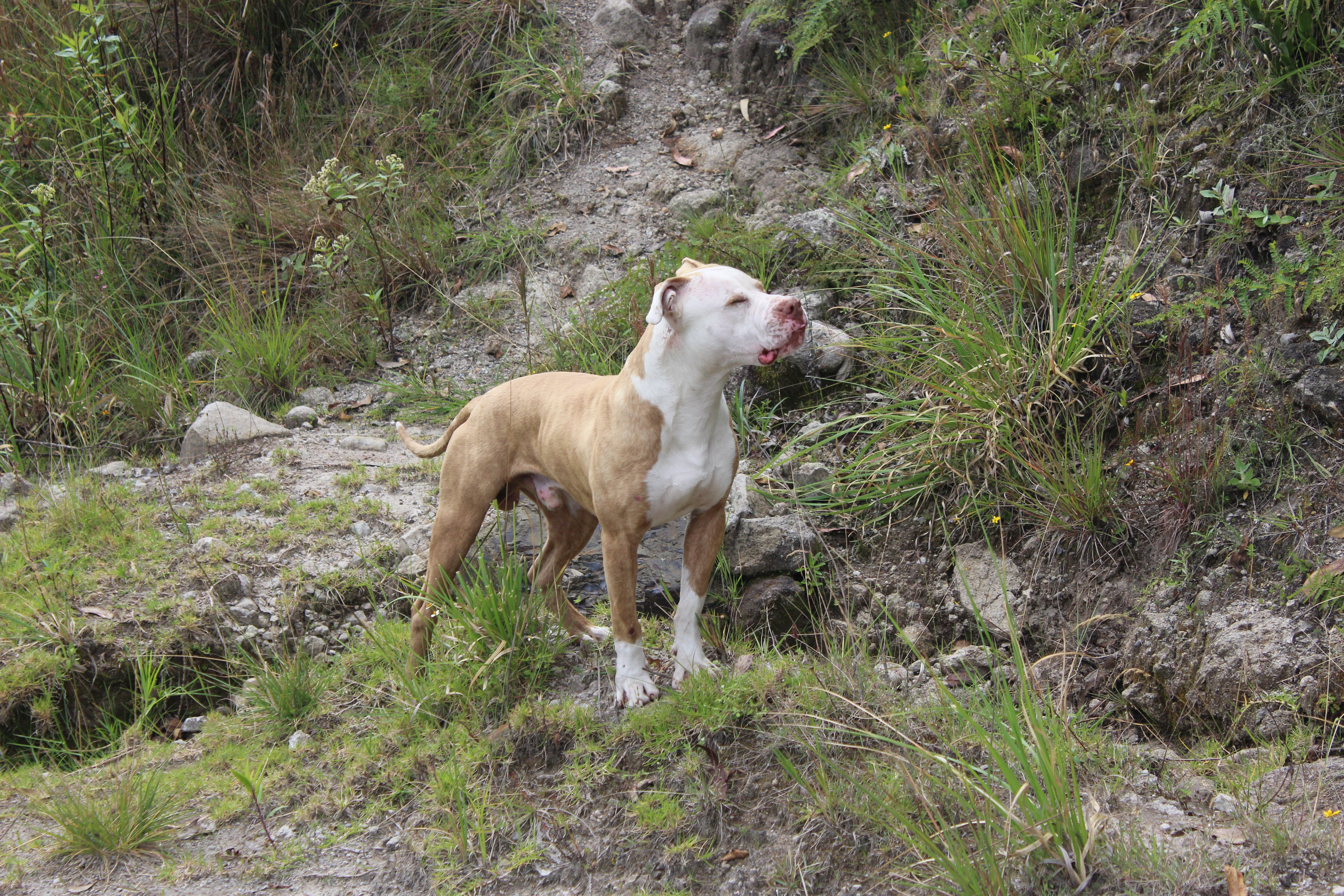 Pedigree dog. American Pit Bull Terrier, red nose, male, red brindle coat. Closed eyes.